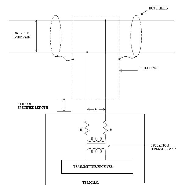 Data bus interface using direct coupling (redrawn Figure 10 from MIL-STD-1553B)